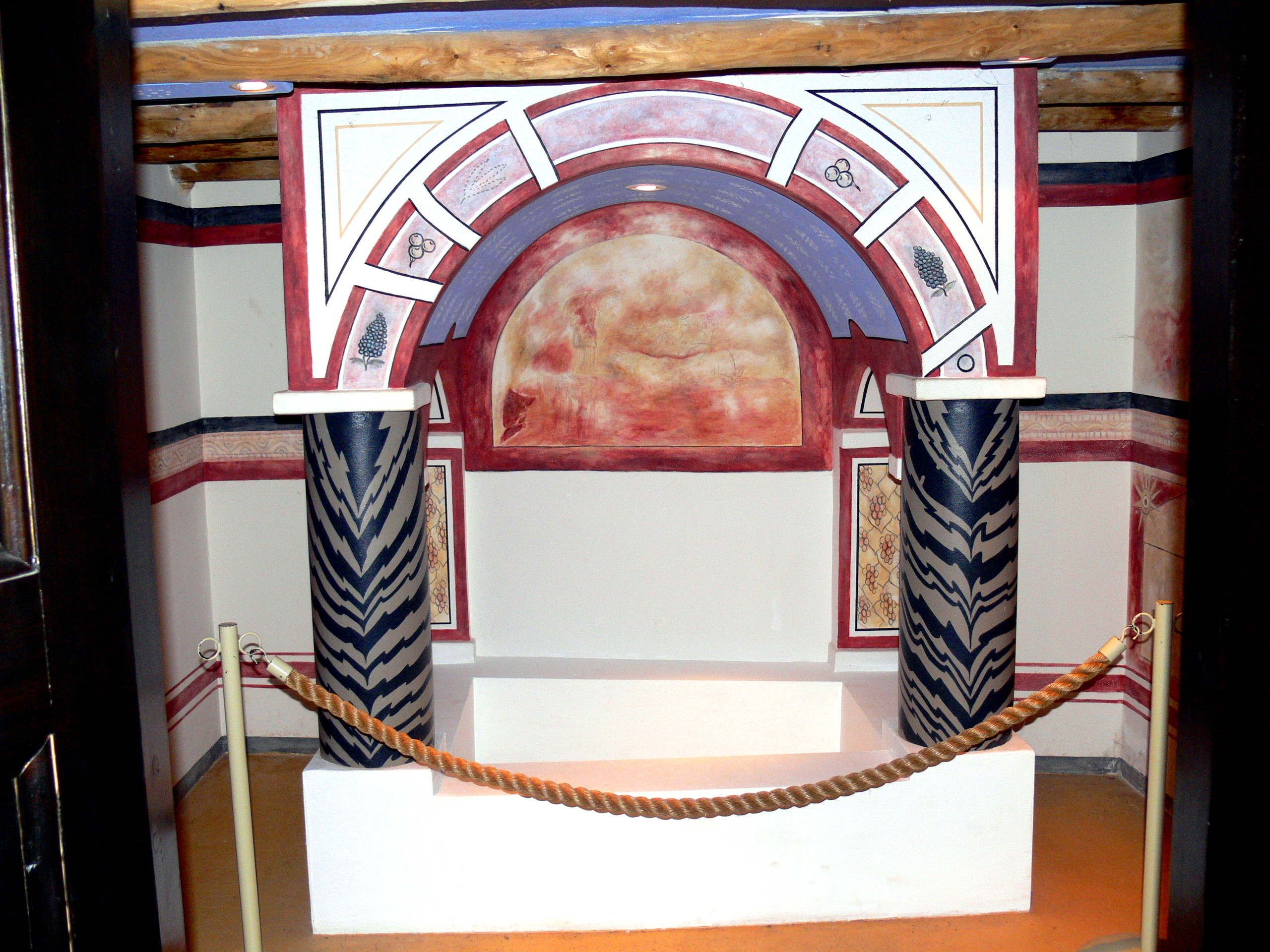 Bible open air museum in Nijmegen. Christian house: Reconstruction of a baptismal font in Dura Europos ( Syria )